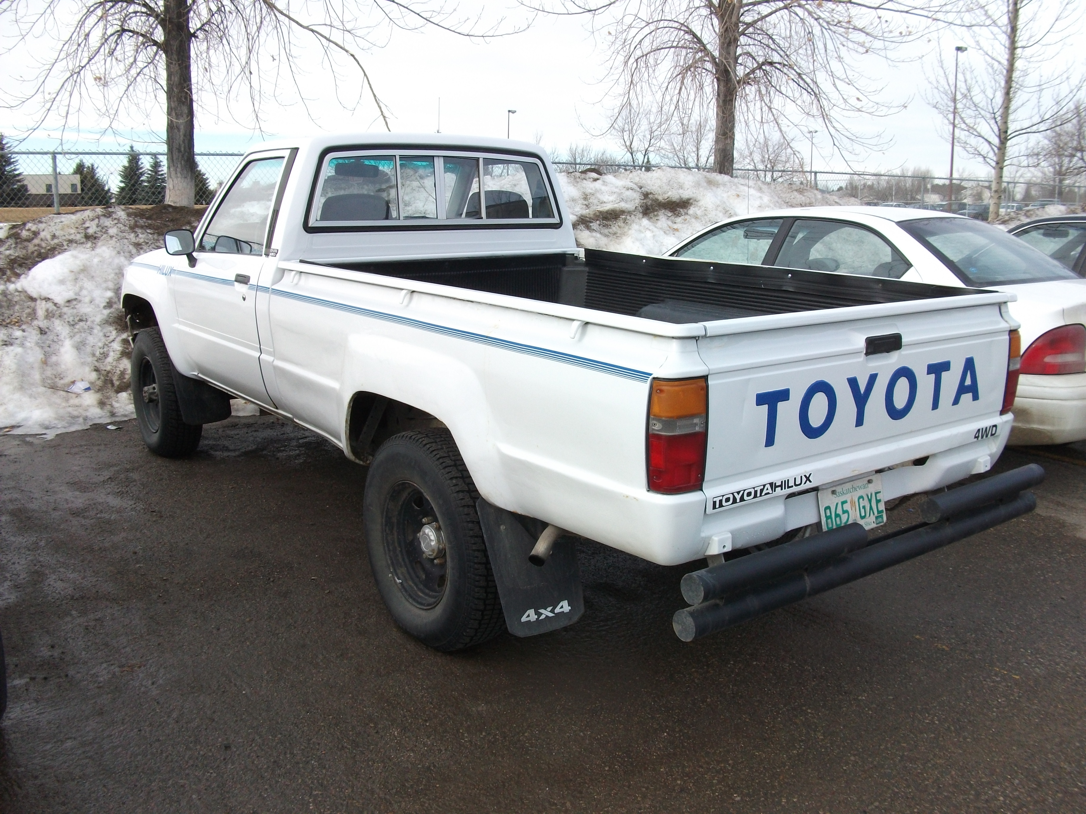 Toyota Hilux truck looking to be in unusually good shape except for the missing bit on the front bumper.